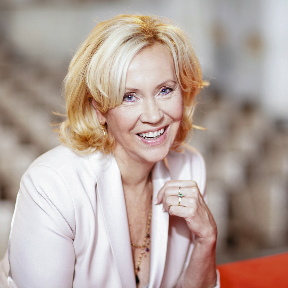 Press photo of Agnetha Fältskog in conjunction with Stockholm Pride 2013.